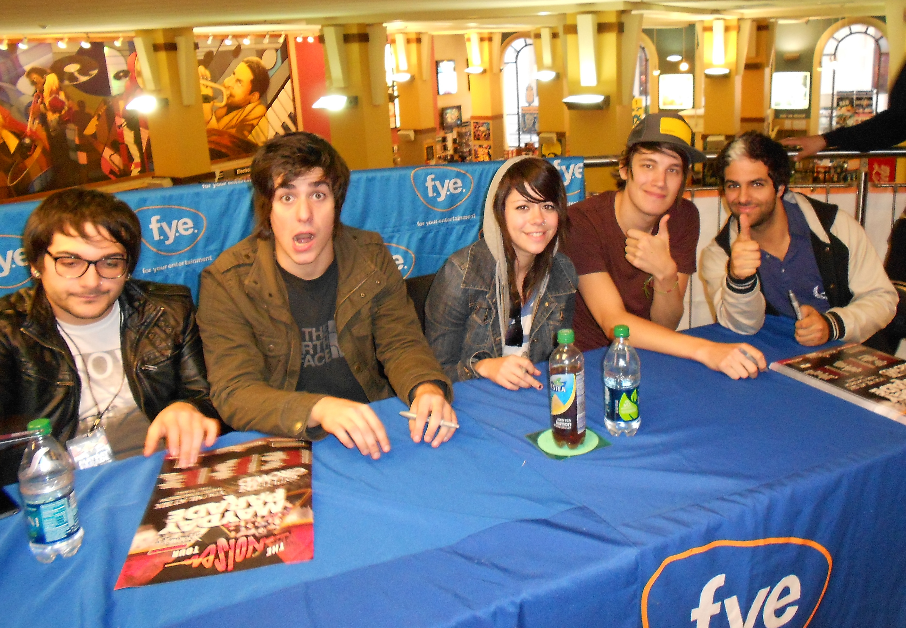 We Are The In Crowd signing at an FYE store in Philadelphia, PA. I took this photo myself.